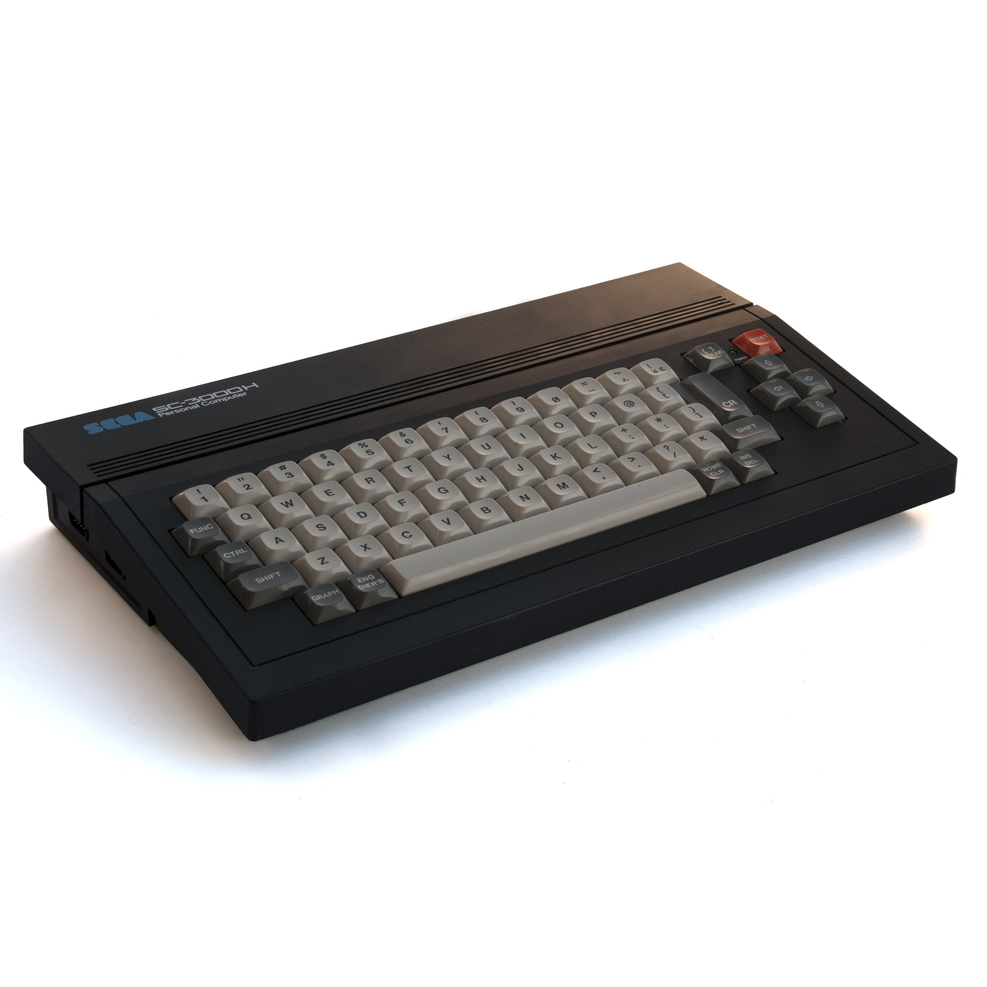 Sega SC-3000H microcomputer.